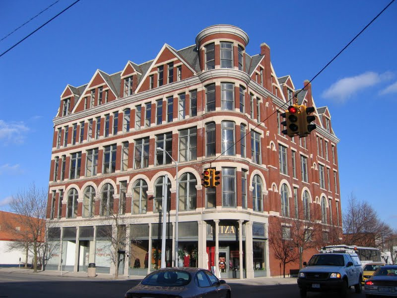 Southern and western sides of the Metropolitan Block, located at 300 N. Main Street in Lima, Ohio, United States. Built in 1890, it is listed on the National Register of Historic Places.